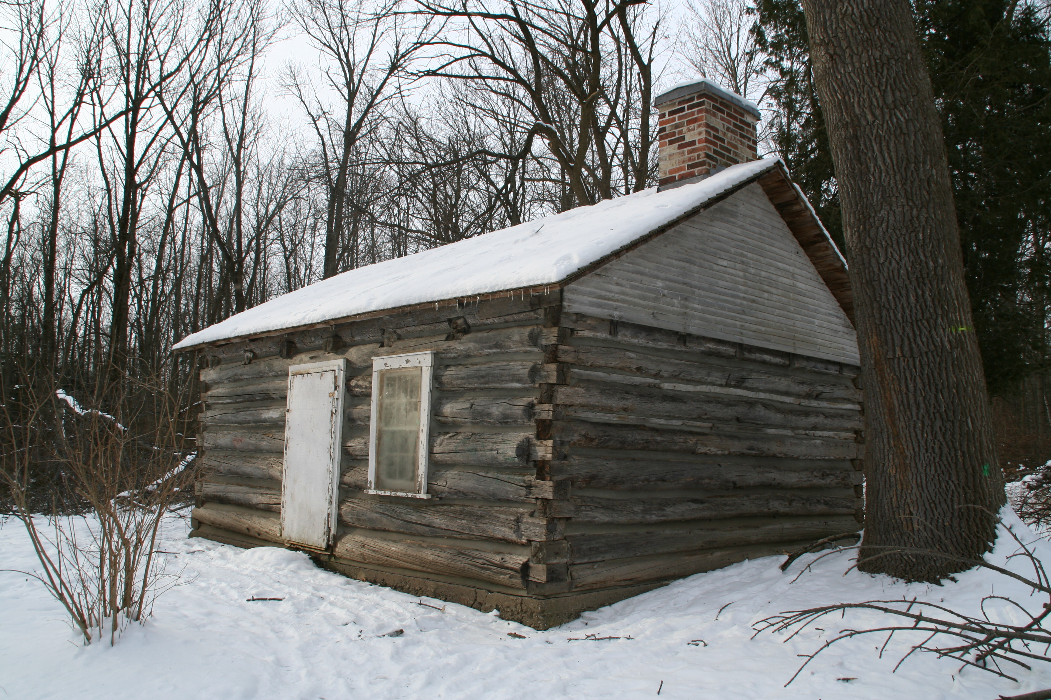 The Osterhout Log Cabin in Guildwood Park, Scarborough. This square-timbered cabin was built in 1795, making it the oldest house in Scarborough and one of the oldest buildings in Toronto.